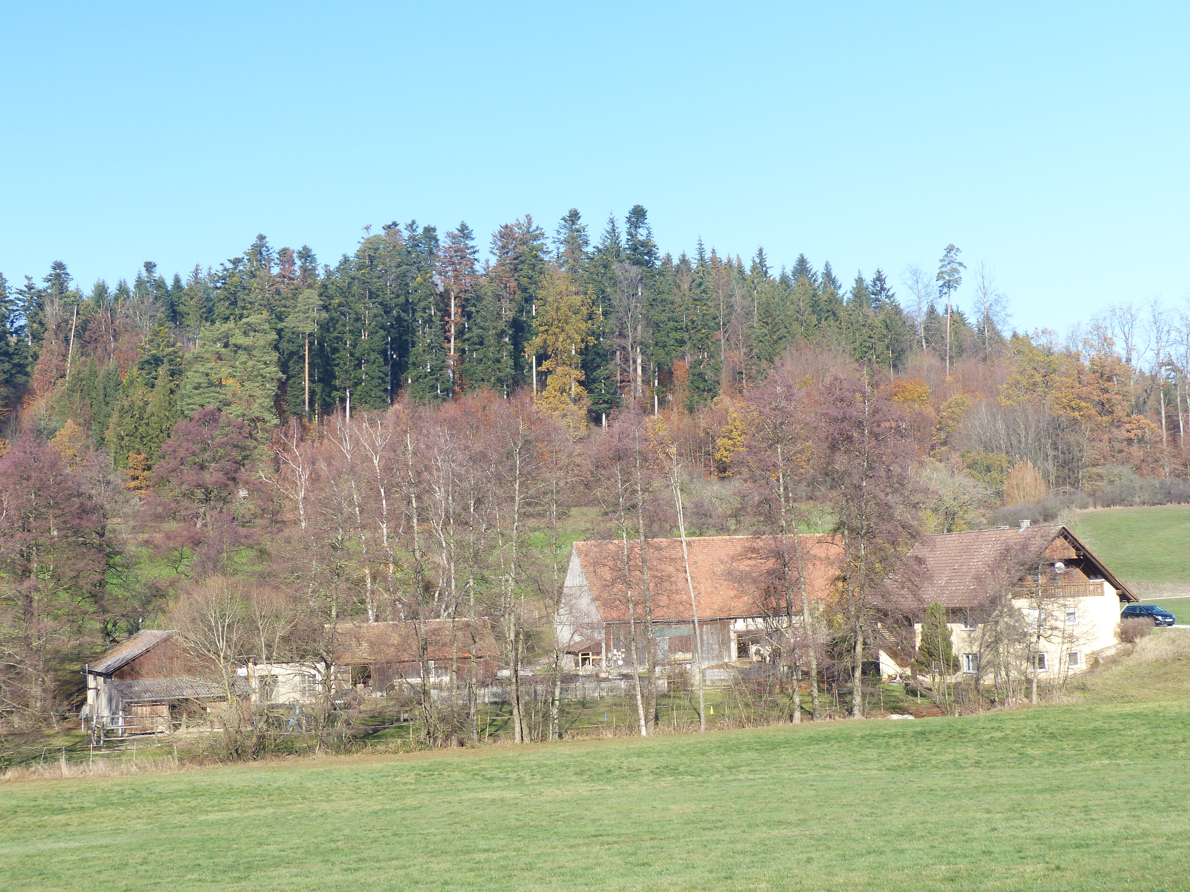 The smallholding Sixenmühle, part of the municipality of Stimpfach